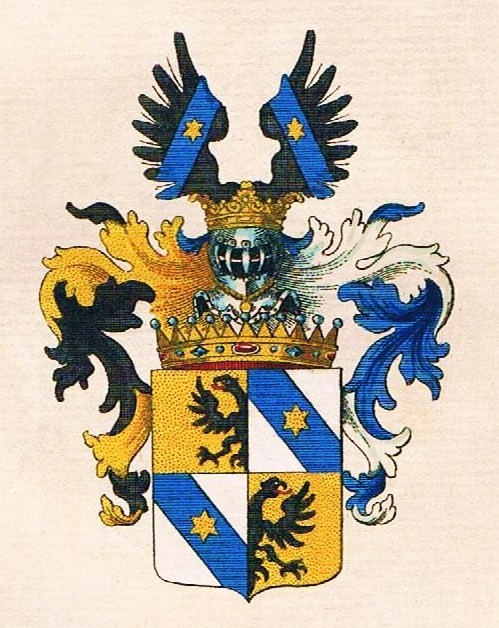 Coat of arms of Alberti von Enno (Counts)